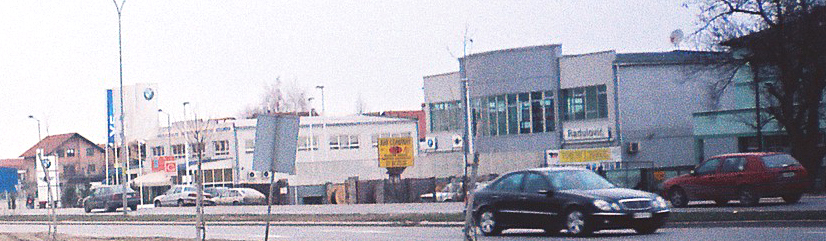 Image of Veternik near Novi Sad (self made)